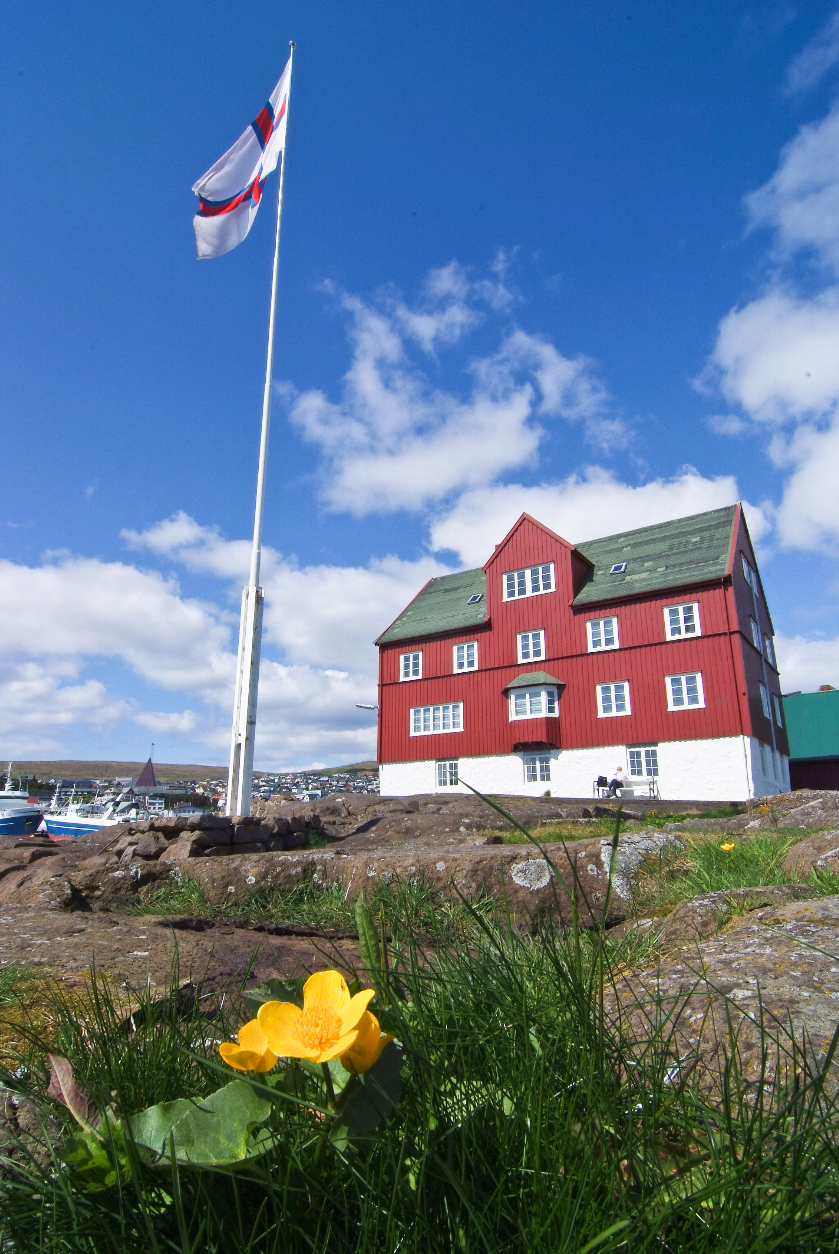 Buttercup in front of the government offices on Tinganes in Tórshavn, Færøyene.